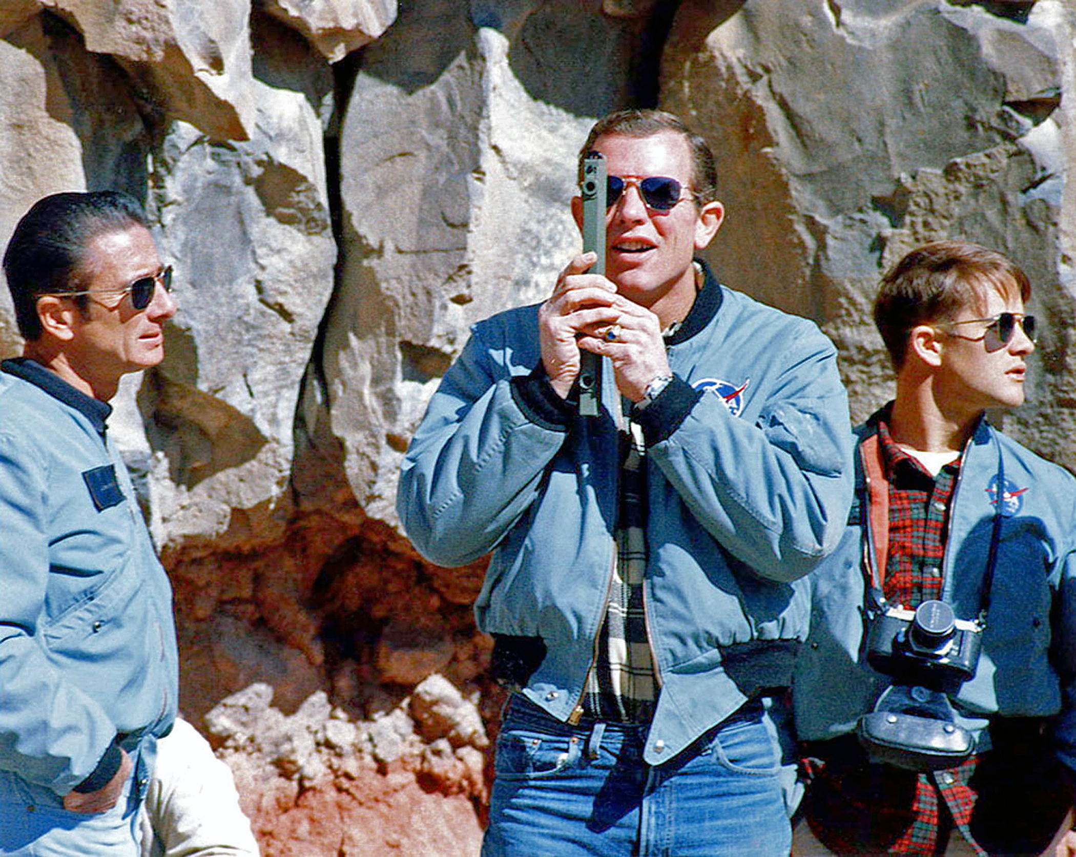 From left to right: James Irwin, David Scott and Joe Allen during geology training